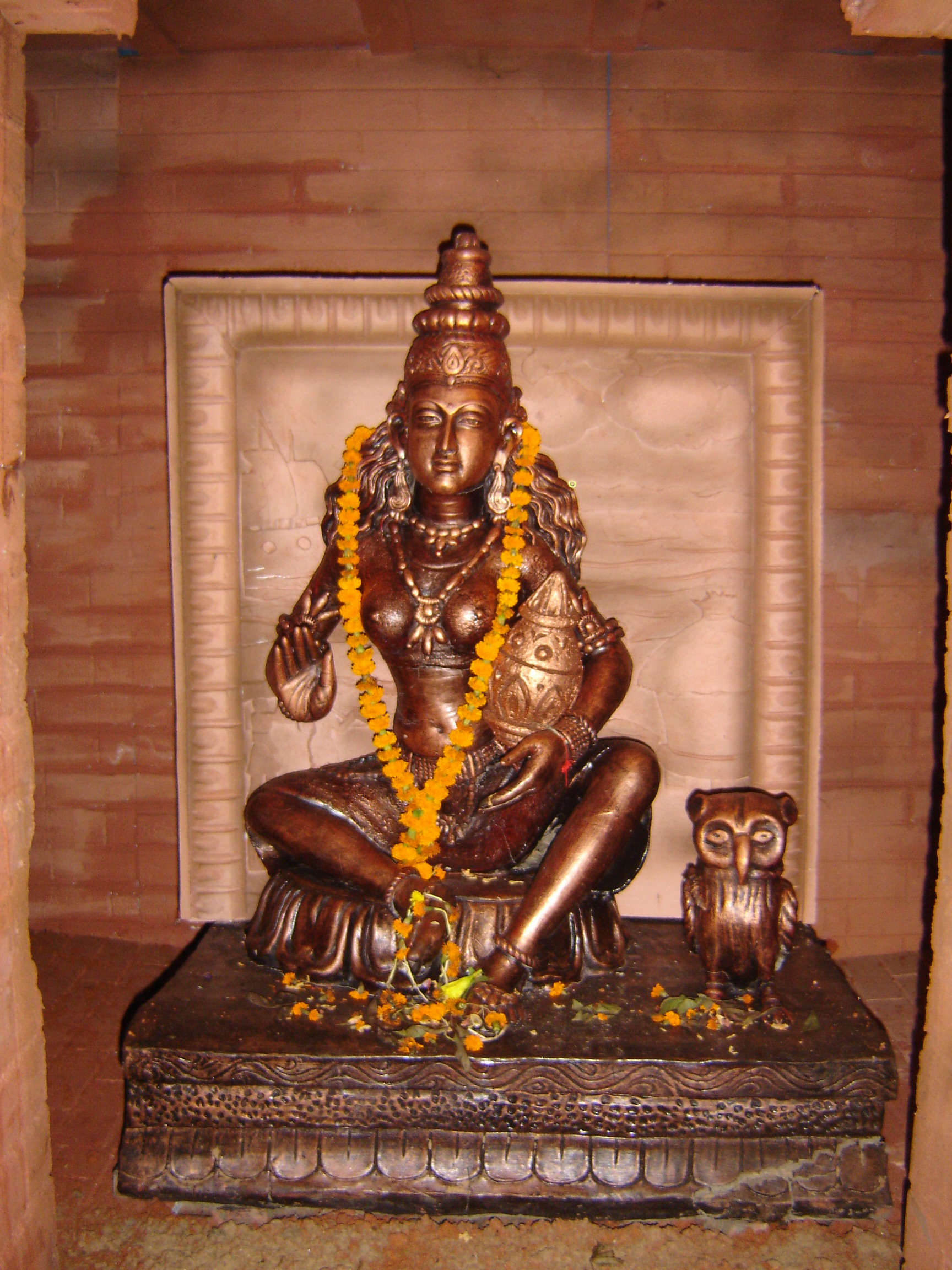 Durga Puja is one of the largest celebrated festivals in the whole world. These photographs have taken at Biswamilani club at Howrah.